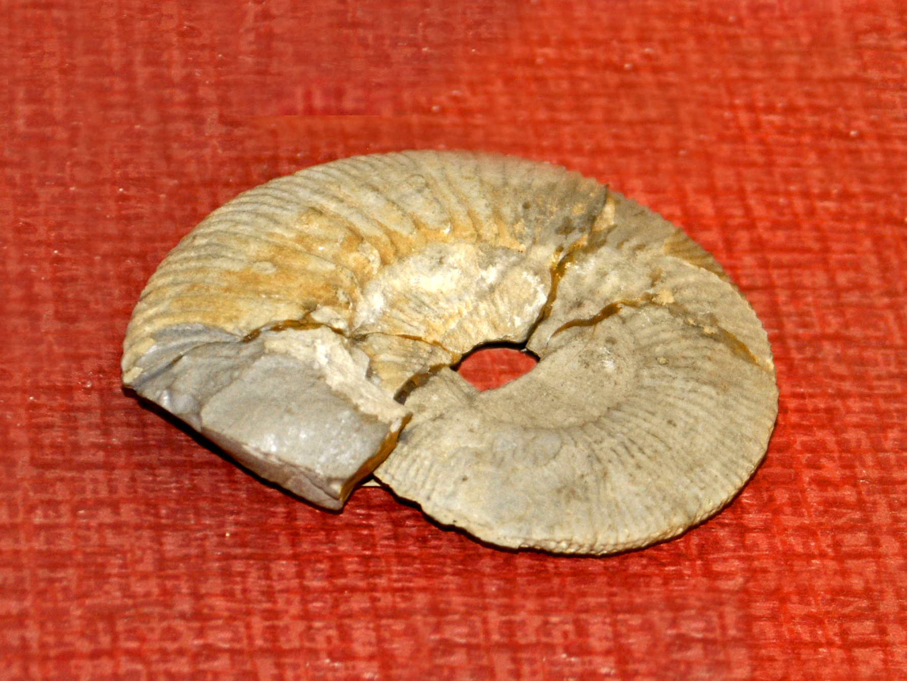 Fossil shell of Berriasella jabronensis from Gard (France), on display at Gallery of Paleontology and Comparative Anatomy, Paris.